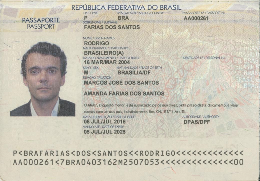 Brazil passport data page.